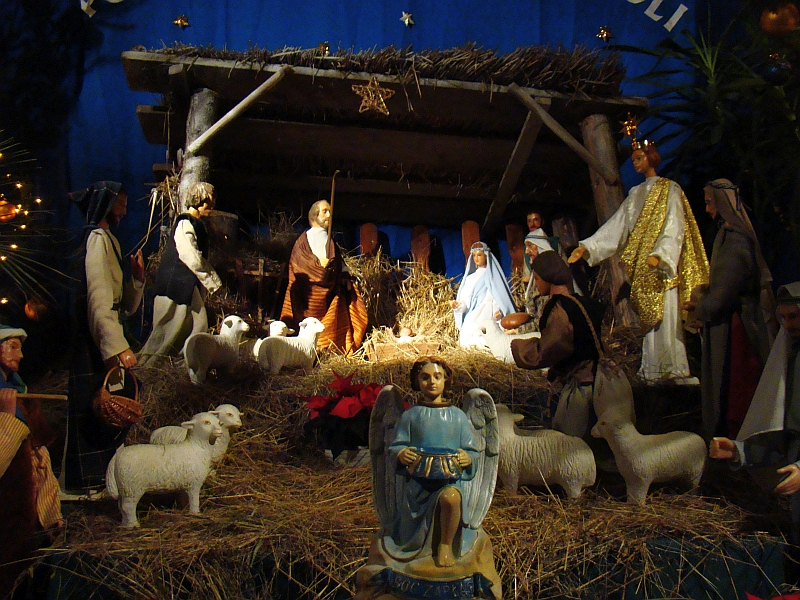 Nativity scenes in Sanok